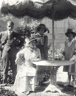 Hermann Oelrichs Jr., Tessie Oelrichs, Muriel Vanderbilt, and Consuelo Vanderbilt (named for her aunt Consuelo Vanderbilt Balsan).